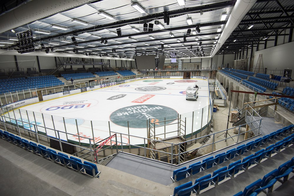 lg